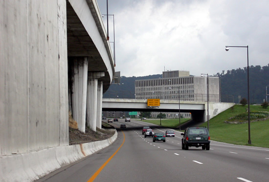 Interstate 64 and Interstate 77 at the WV 114 three-level interchange in Charleston, West Virginia. The westbound/northbound lanes are to the left, cantalivered at times, over the eastbound/southbound lanes.